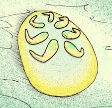 Reconstruction of the Ediacaran Tamga hamulifera, from the Precambrian of Russia[1]